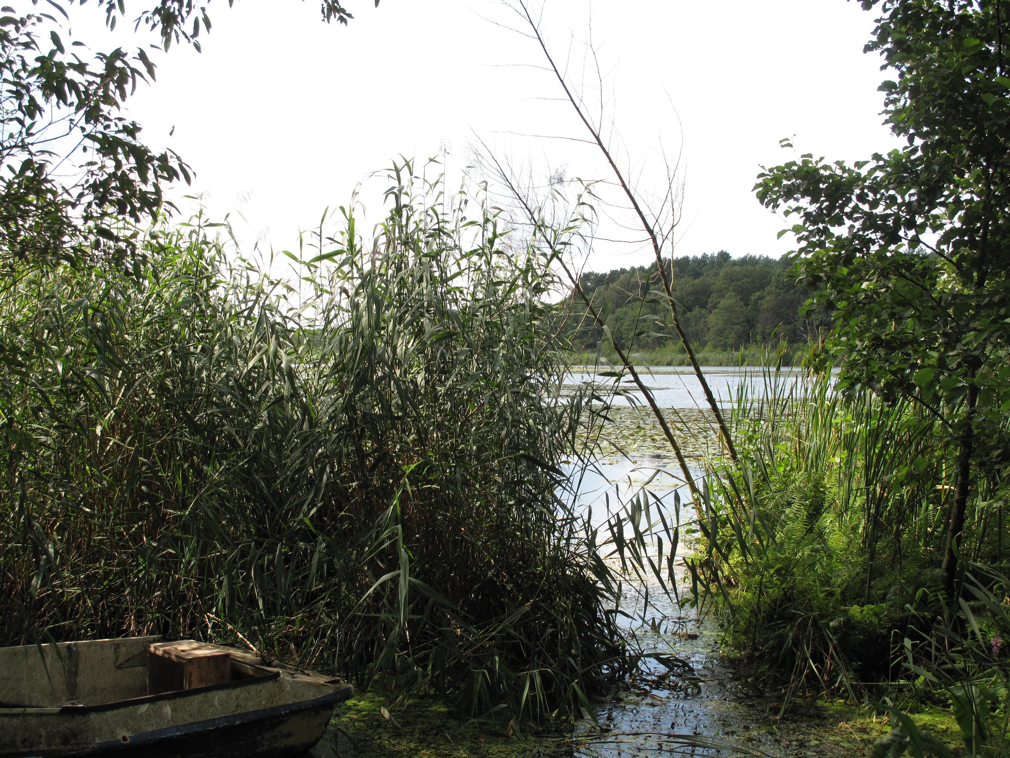 North-basin of the Drobschsee, view from the eastern shore to west. The Drobschsee is a lake in the village Görsdorf, a part (german: Ortsteil) of the municipality Tauche in the District Oder-Spree, Brandenburg, Germany. The lake covers 13 hectare. The long-drawn groove lake is the most southern water of a five-part chain of lakes, which is connected by the Blabbergraben.The Blabbergraben drains the lakes from north to south into the river Spree. The lake is situated in the Dahme-Heideseen Nature Park and in the Naturschutzgebiet (protected area)/Natura 2000-area Naturschutzgebiet Schwenower Forst. A part of the Drobschsee and its southern silt area is designated as Naturentwicklungsgebiet (german for: nature development area), a specially protected area, which is deprived humans influence.